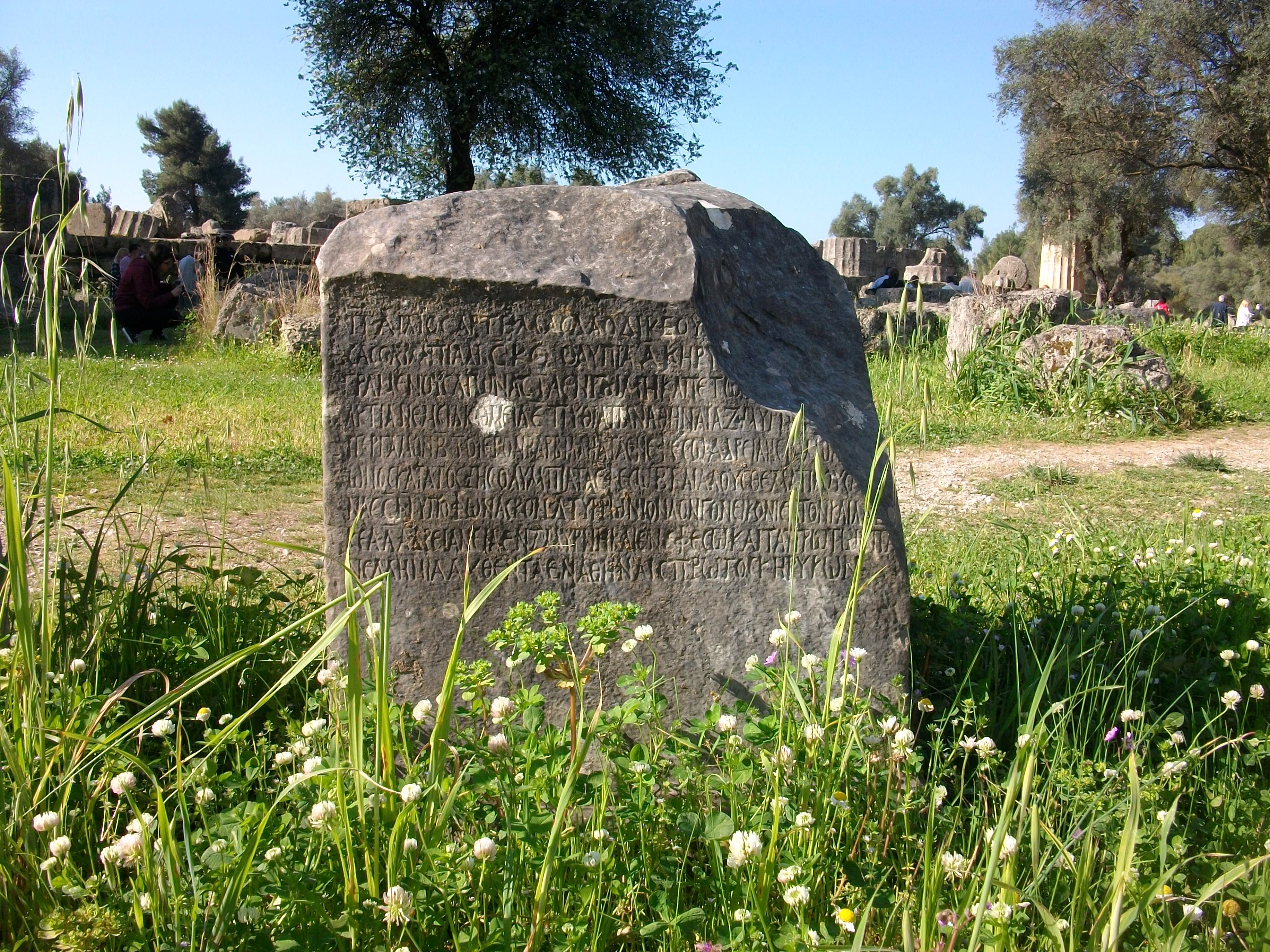 Inscription of Publius Artemas of Olympia